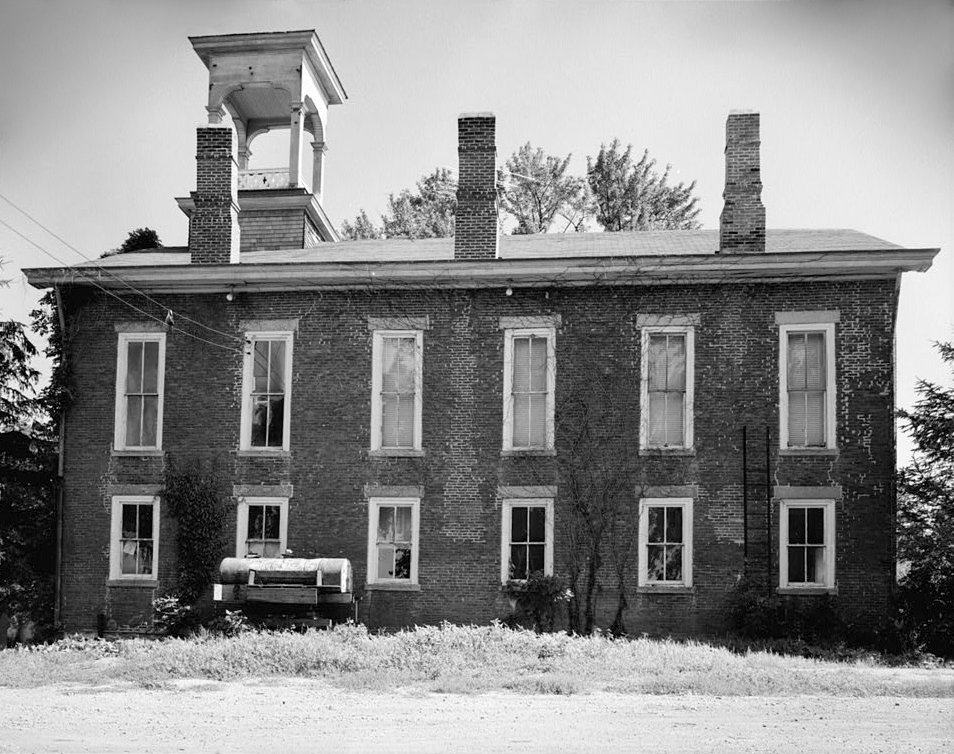 Side view of Irvin Hall at Highland Community Junior College in Highland, Doniphan County, Kansas, United States. Built in 1859, the building was added to the National Register of Historic Places on 24 February 1971.